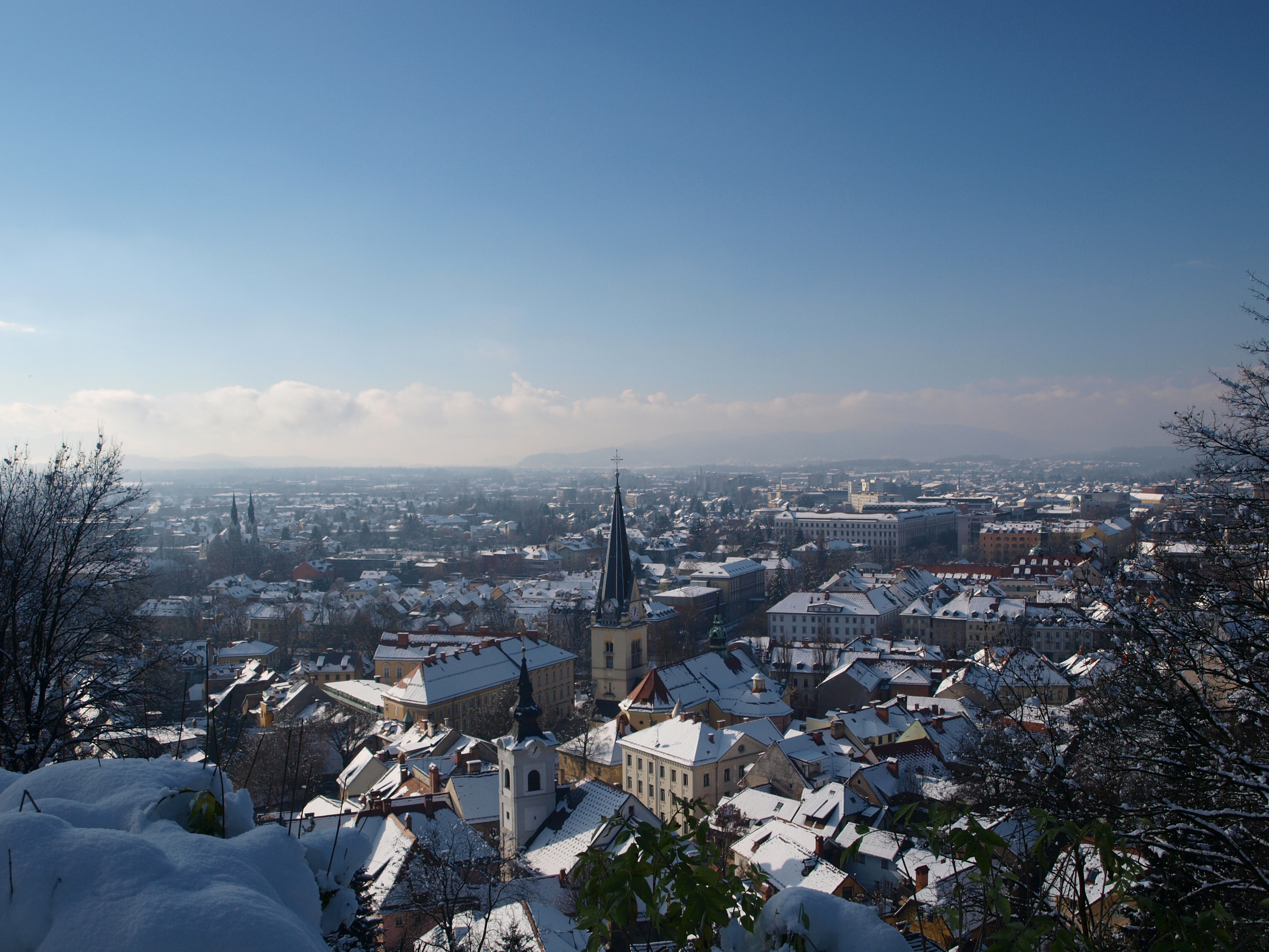 Ljubljana from castle hill, view to South West.